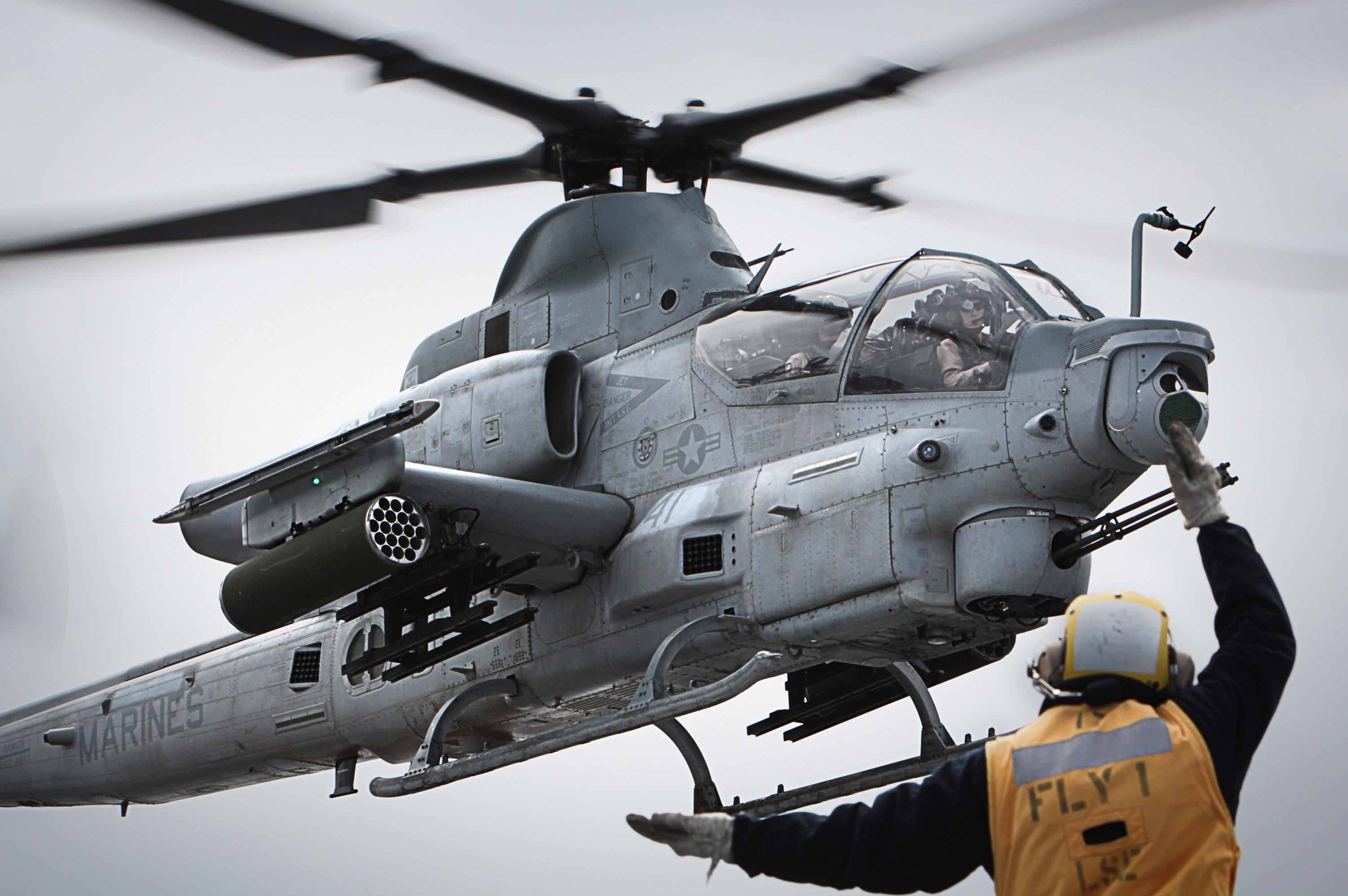 Petty Officer 2nd Class Patrick Henry, an aviation boatswains mate from Pearl City, Hawaii, guides an AH-1Z "Viper SuperCobra" landing aboard USS Makin Island Oct. 5. The attack helicopter was piloted by Capt. Travis Patterson and 1st Lt. Michael Tetreault, who serve with Marine Light Attack Helicopter Squadron 367, aka Scarface. A squadron detachment is supporting the aviation combat element of the 11th Marine Expeditionary Unit's special-purpose Marine air-ground task force. The 11th Marine Expeditionary Unit is the first amphibious landing force to embark Makin Island, which set sail for San Francisco Oct. 1 to participate in the city's 2010 Fleet Week. There the 11th MEU plans to showcase to the public the Marine Corps' men and women, its aircraft and equipment, and its ability to conduct missions that span the overlapping spectrums of peace and combat, from disaster relief of war. Tetreault is from Killingly, Conn., and Patterson is from Austin, Texas.